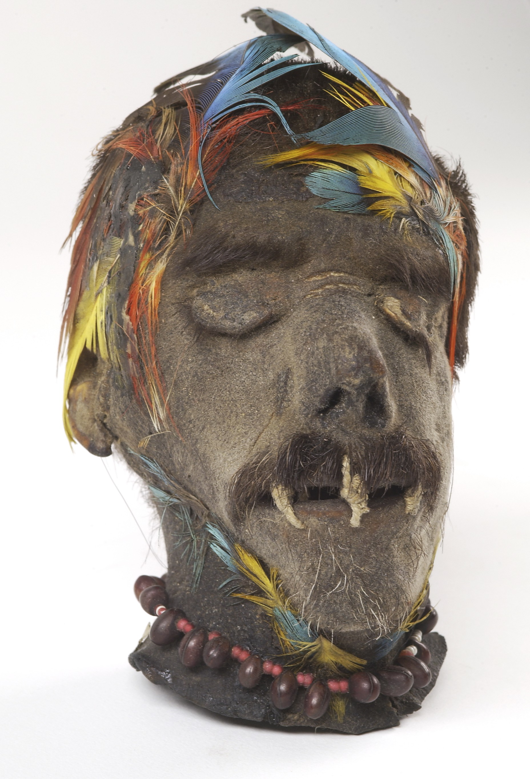 A Shuar shrunken head (tsantsa) from Ecuador with a stitched mouth and feather headdress. Wellcome Images Keywords: Trophy; Tribal; Ritual; Anthropology; Talisman; Custome; Ceremonial